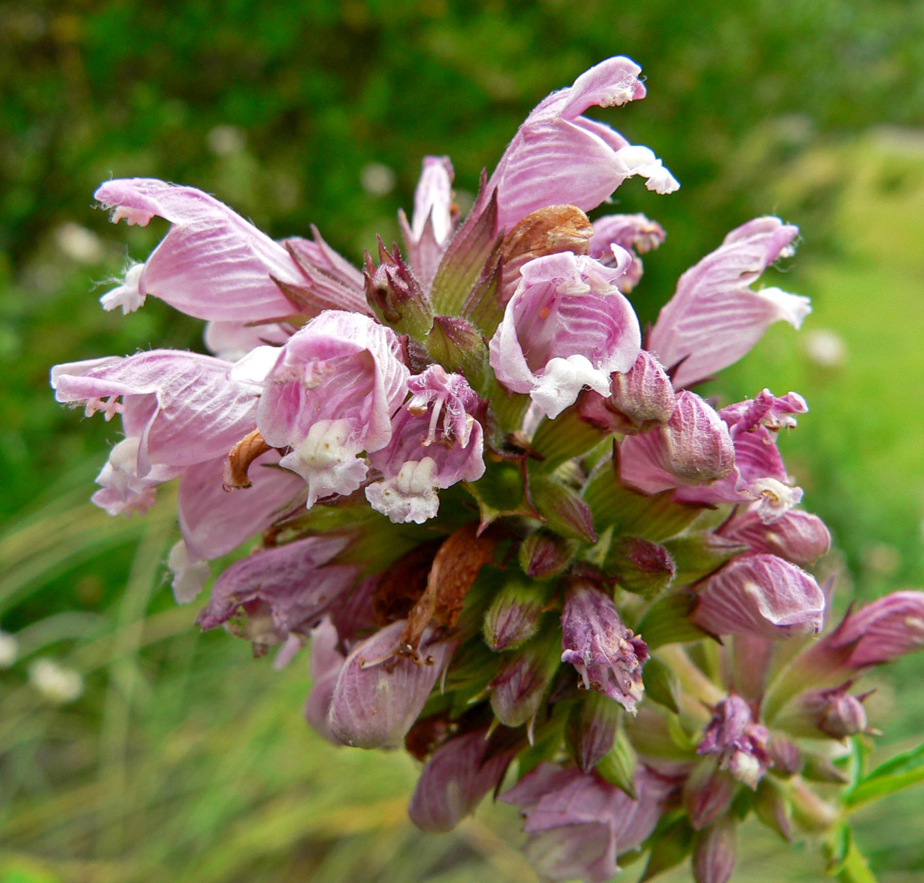 Photo of Cedronella canariensis at the San Francisco Botanical Garden